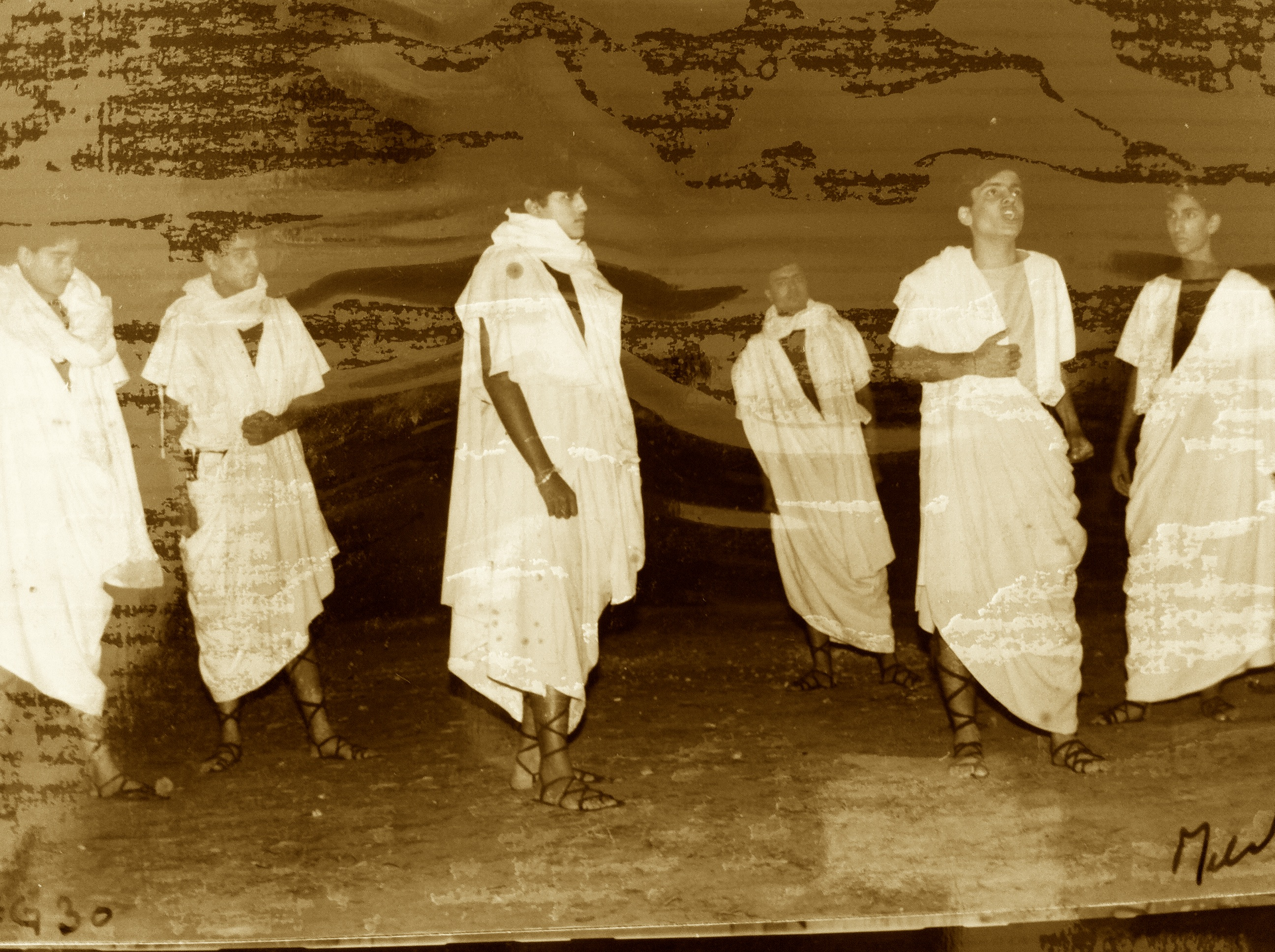 school play in a boarding school in north india